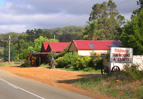 Porongurup Tea Rooms, Porongurup, Western Australia. Photo taken and uploaded by Andy Dolphin.